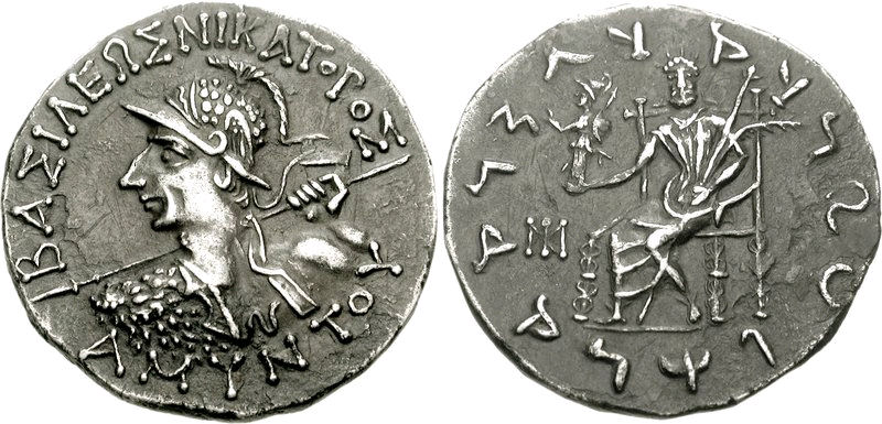 Amyntas Tetradrachm